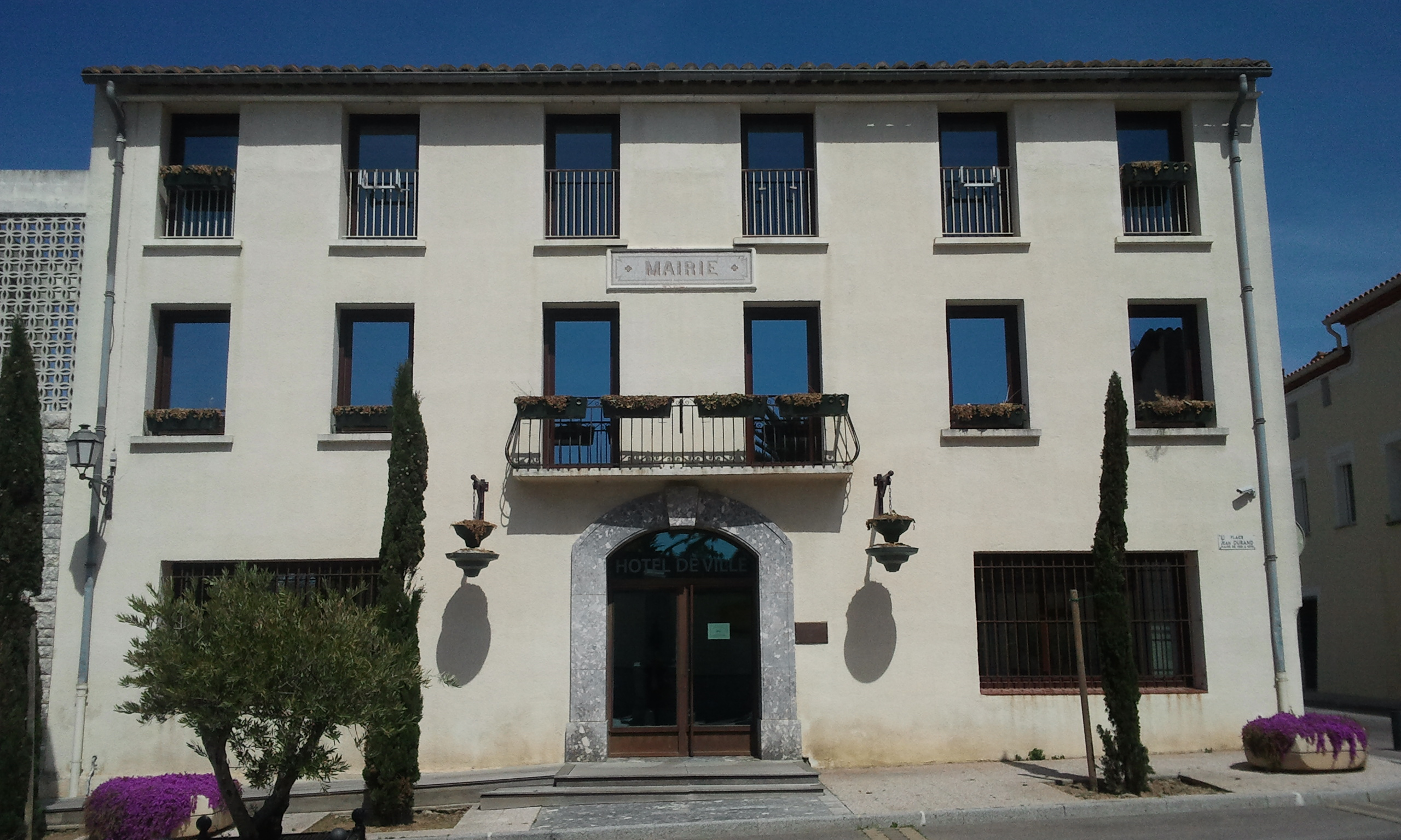 Town hall in Saint-Nazaire (Pyrénées-Orientales)